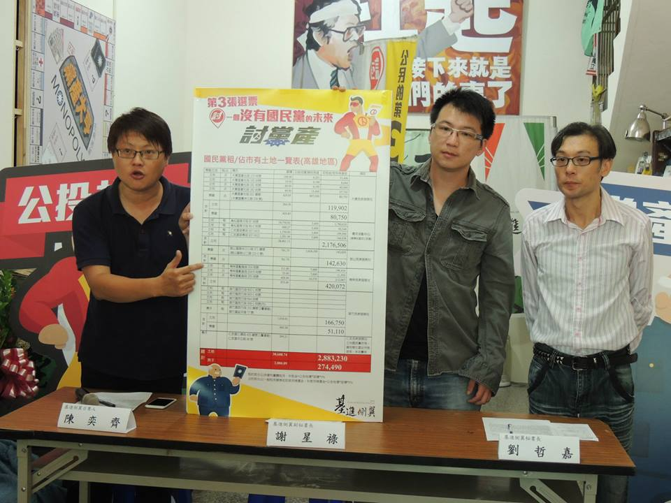 討黨產公投記者會